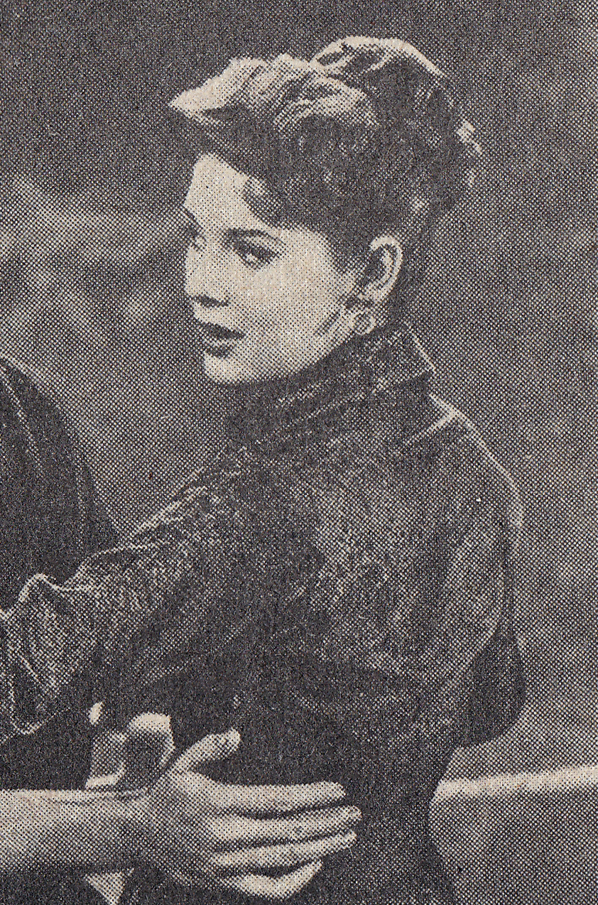 Jill St. John in Summer Love (1958)